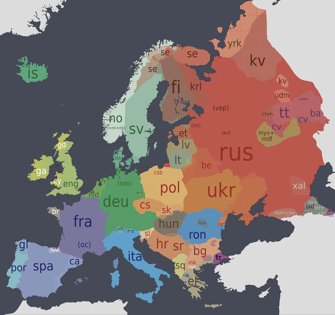 Map showing the approximate current distribution of languages in Europe.